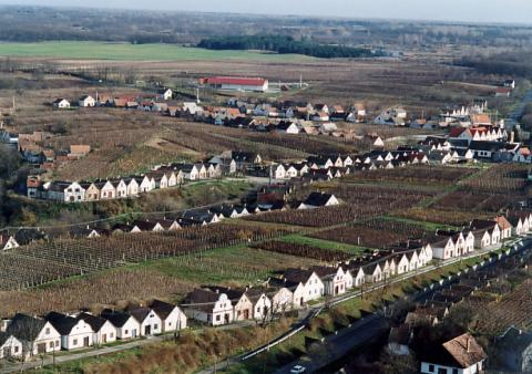 Hajós, Hungary, aerialphotography